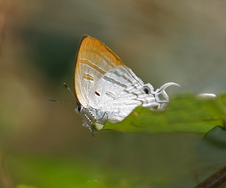 Fluffy Tit Zeltus etolus at Jayanti in Buxa Tiger Reserve in Jalpaiguri district of West Bengal, India.